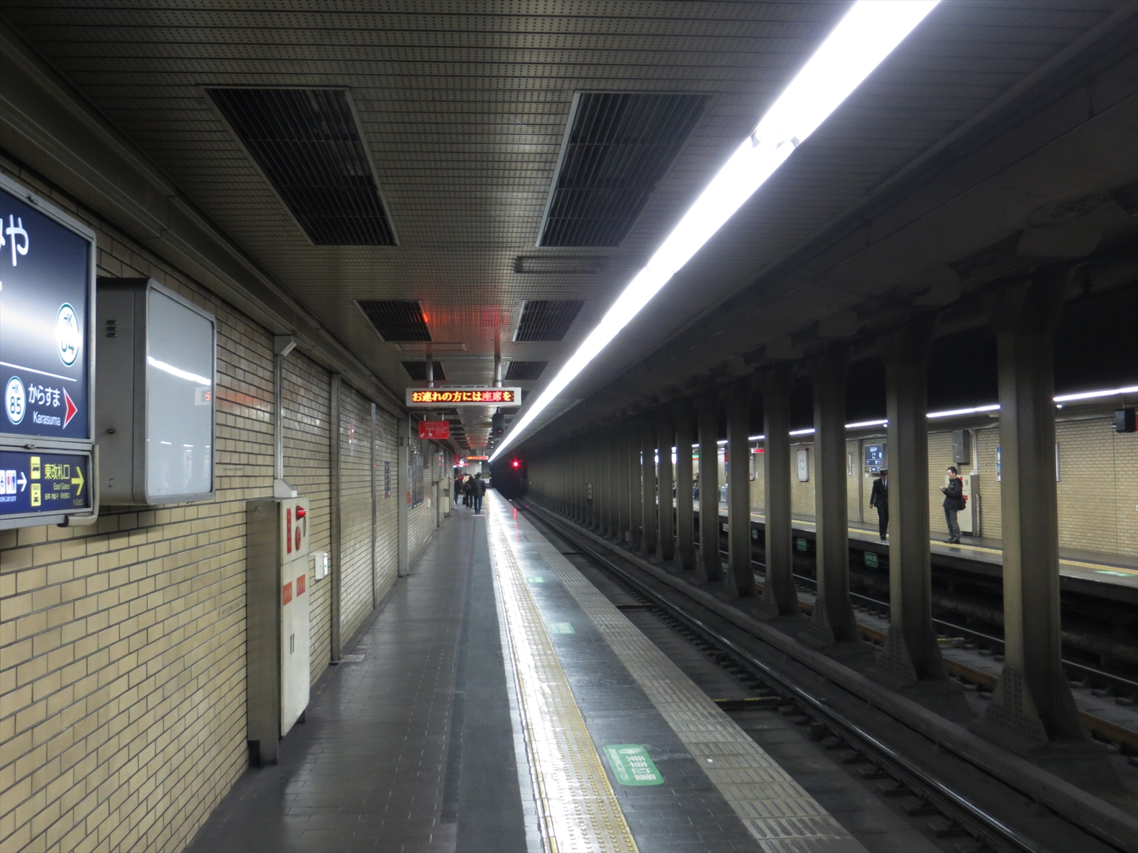 Platform of Ōmiya Station (Kyoto).